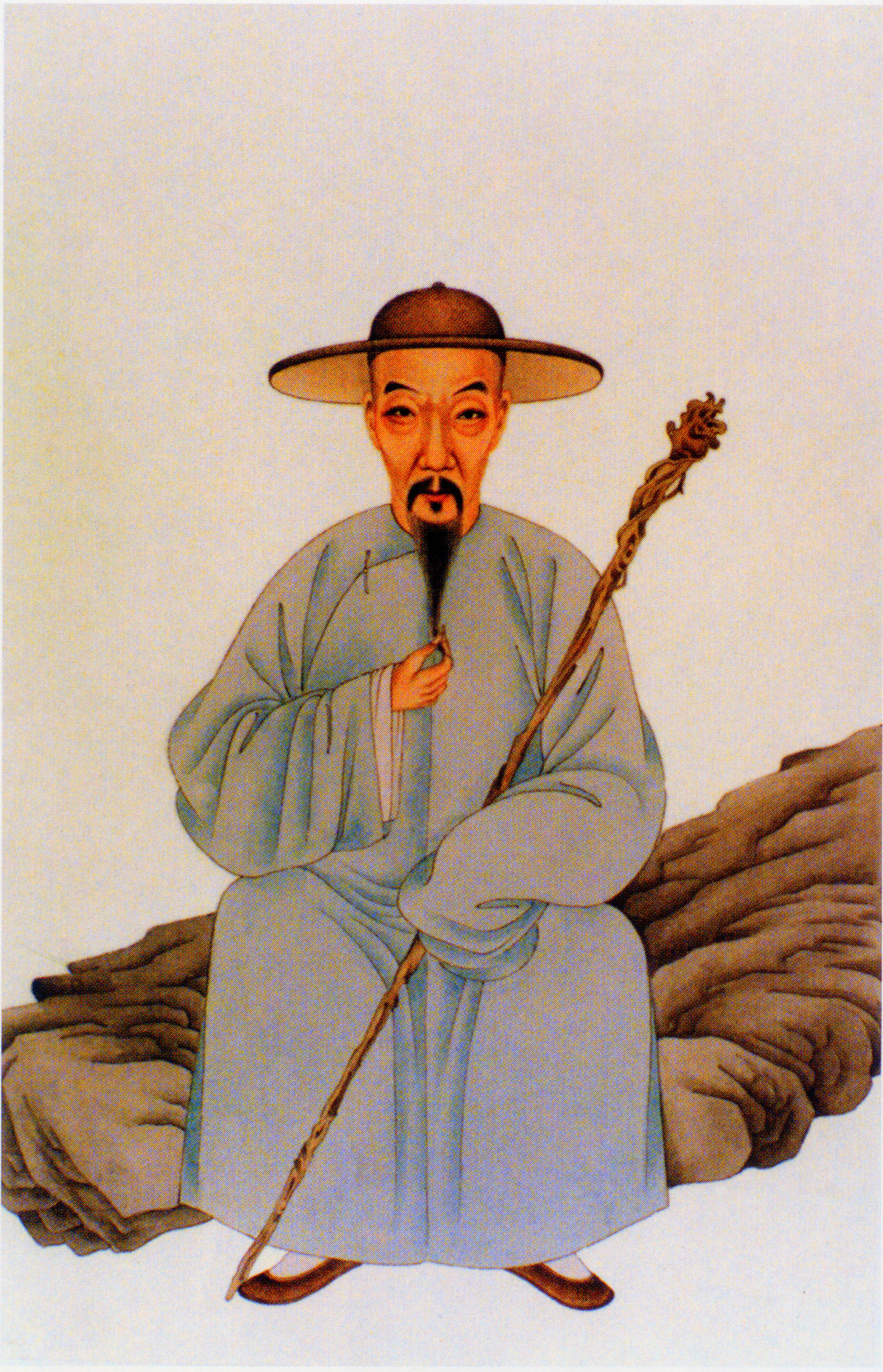 Chinese male feminist Yu Zhengxie.